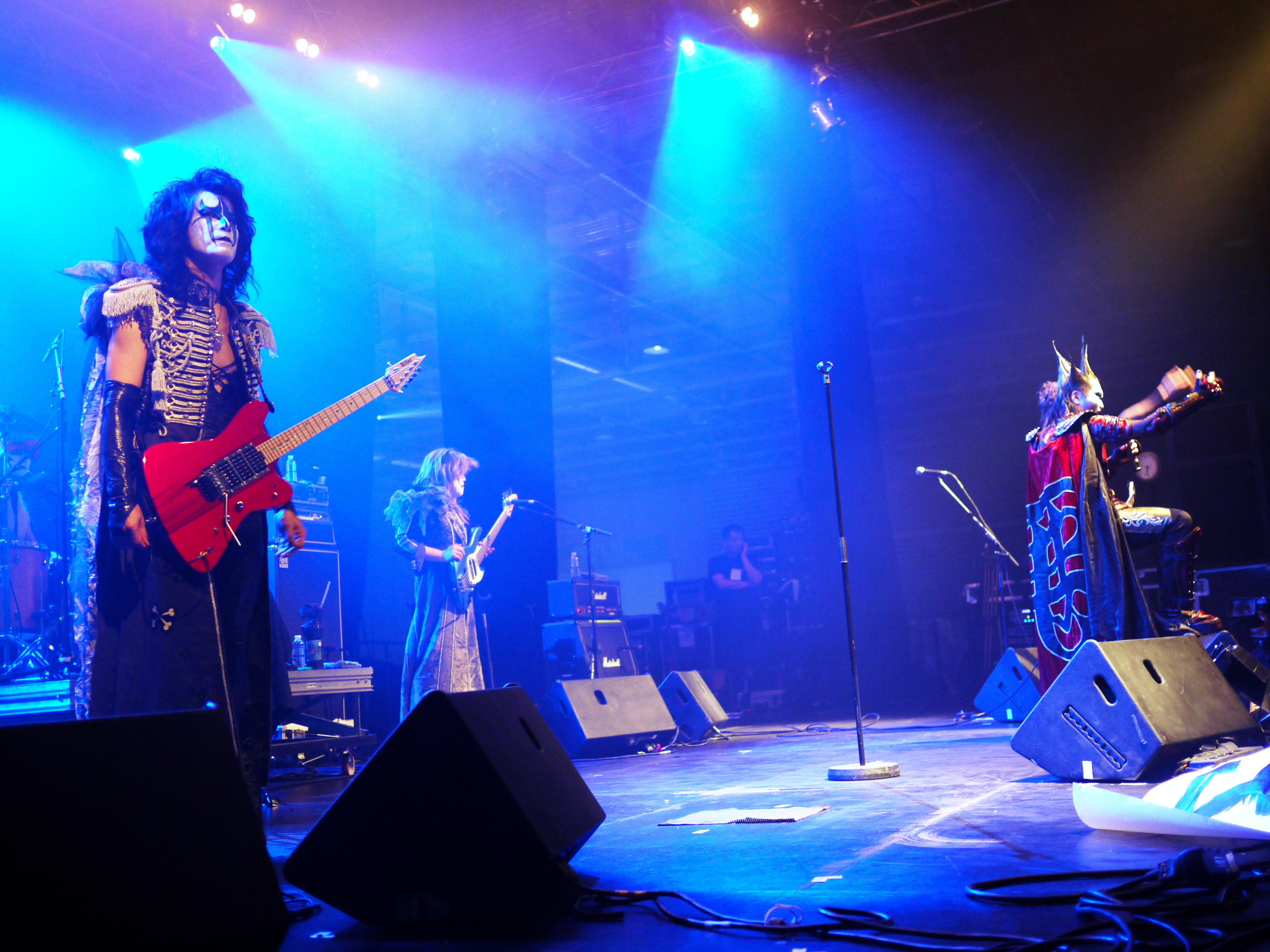 Japan Expo Festival, 11th impact